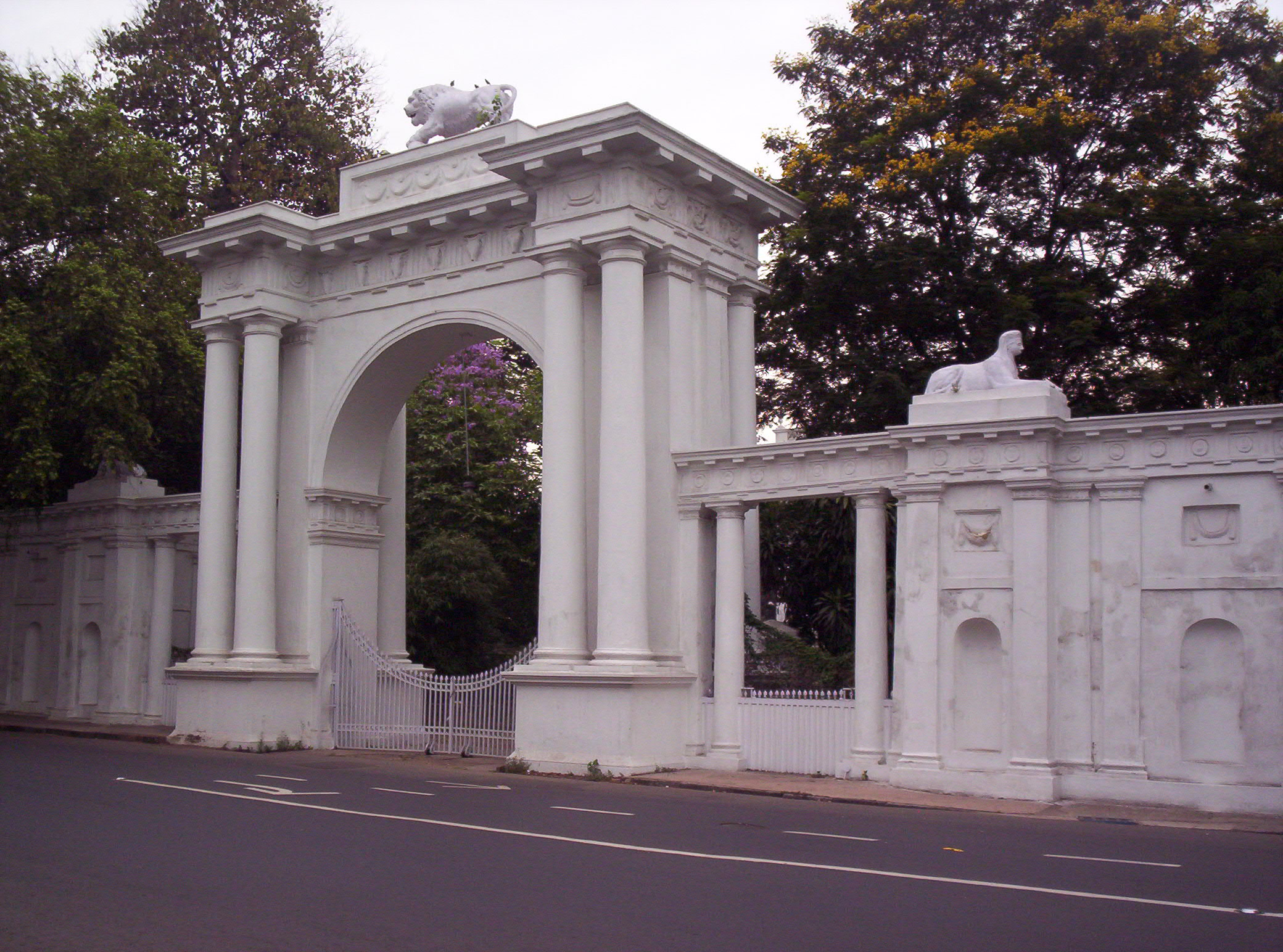 The Easr gate of Raj Bhawan (Government House), Kolkata (Calcutta)